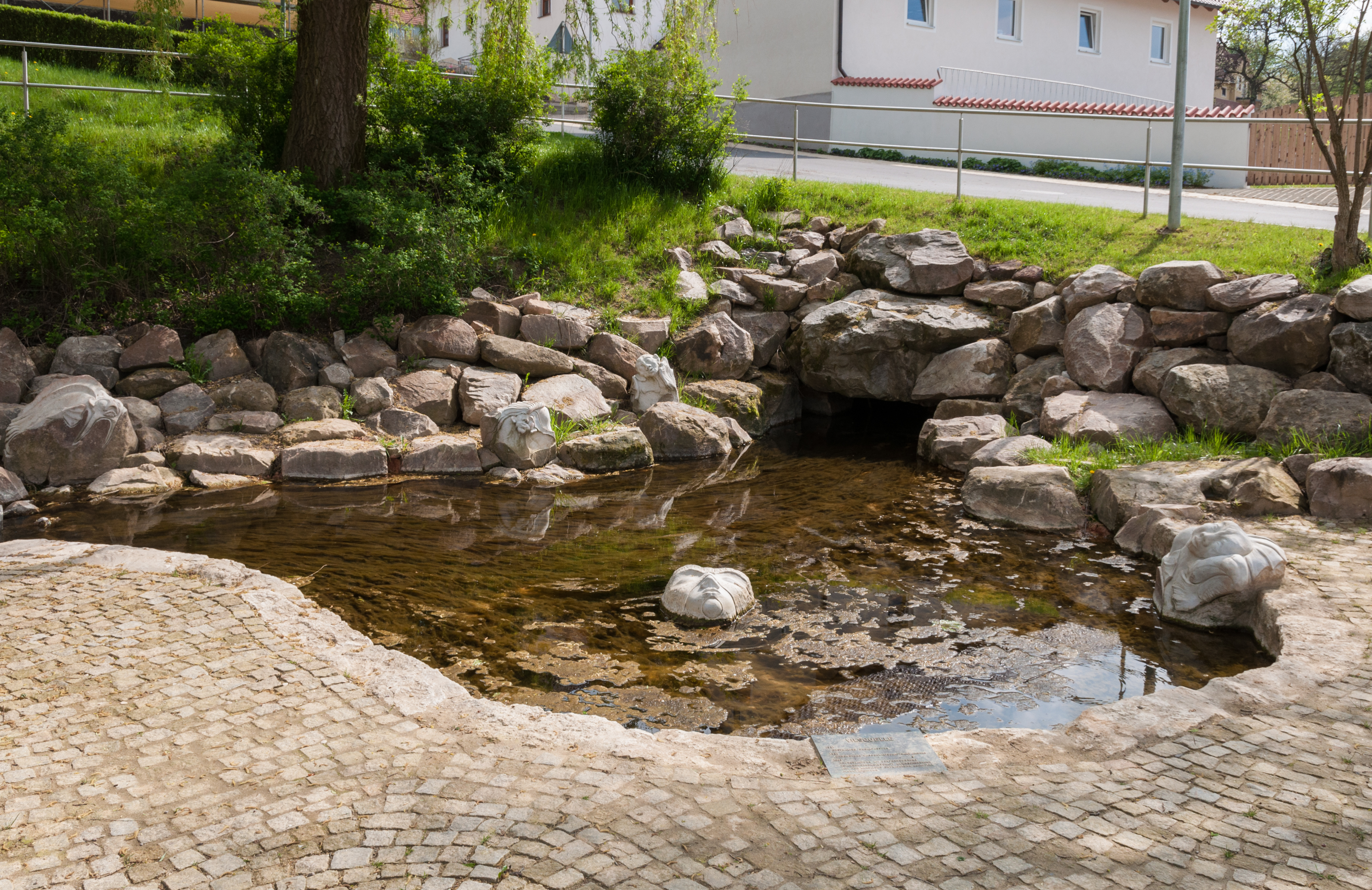 Source of the river Vils, Freihung-Kleinschönbrunn, district Amberg-Sulzbach, Bayern, Germany